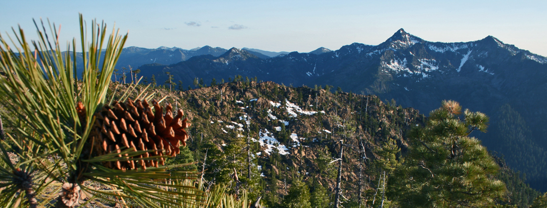 On one of the many serpentine outcrops in the Siskiyou Wilderness, Jeffrey Pine Pinus jeffreyi dominates the landscape. Bear Mountain, the highest in Del Norte County, CA, is in the background.